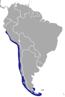 Marine Otter (Lontra felina) range